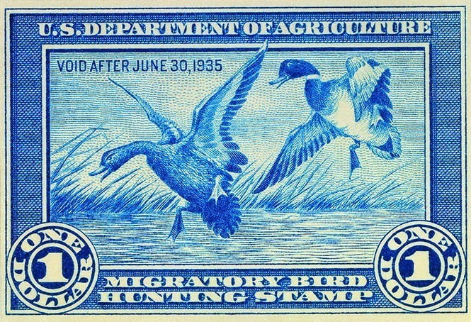 1934-35 United States Department of Agriculture migratory bird hunting stamp depicting mallards by Jay N. "Ding" Darling, chief of the U.S. Biological Survey.